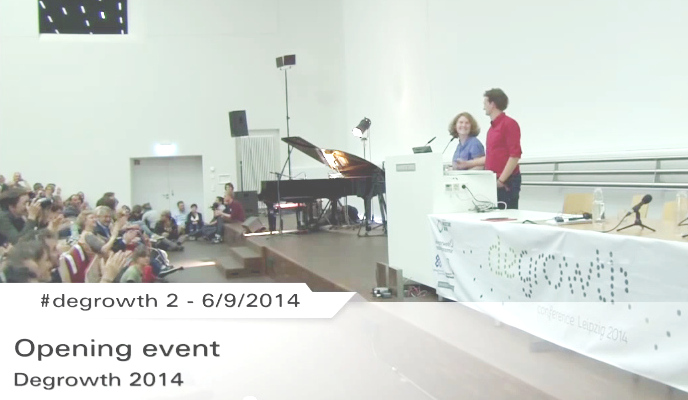 Opening Event of International Conference on Degrowth 2014 in Leipzig. Screenshot from Youtube Video